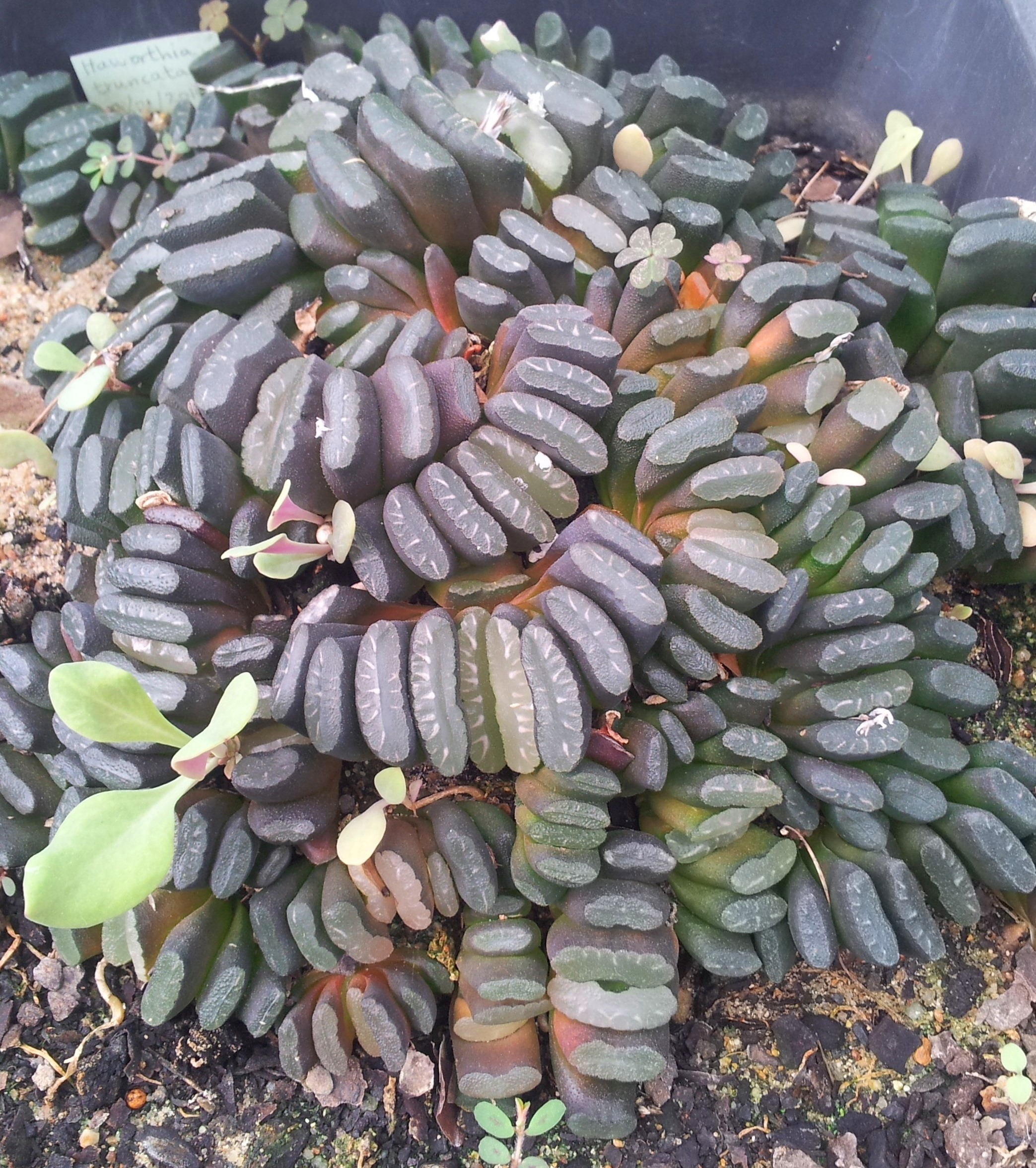 Haworthia truncata - horses tooth succulent in cultivation in Cape Town